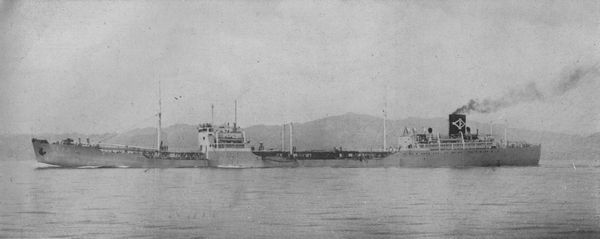 Iino Lines oiler Ryūhō Maru (ex.-Imperial Japanese Navy Type Toku-1TL wartime standard ship Daiju Maru)